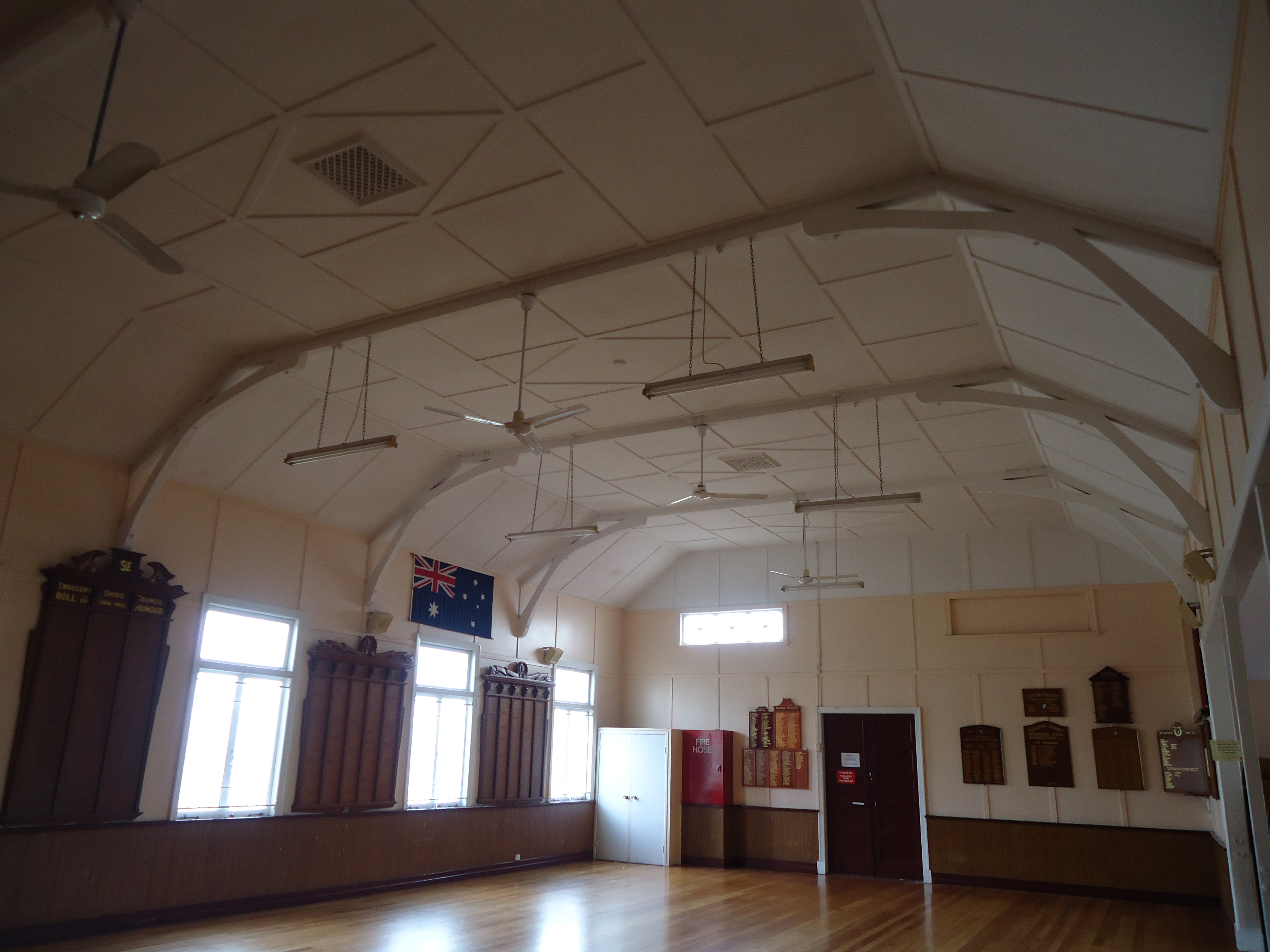 architect: Thomas Pye